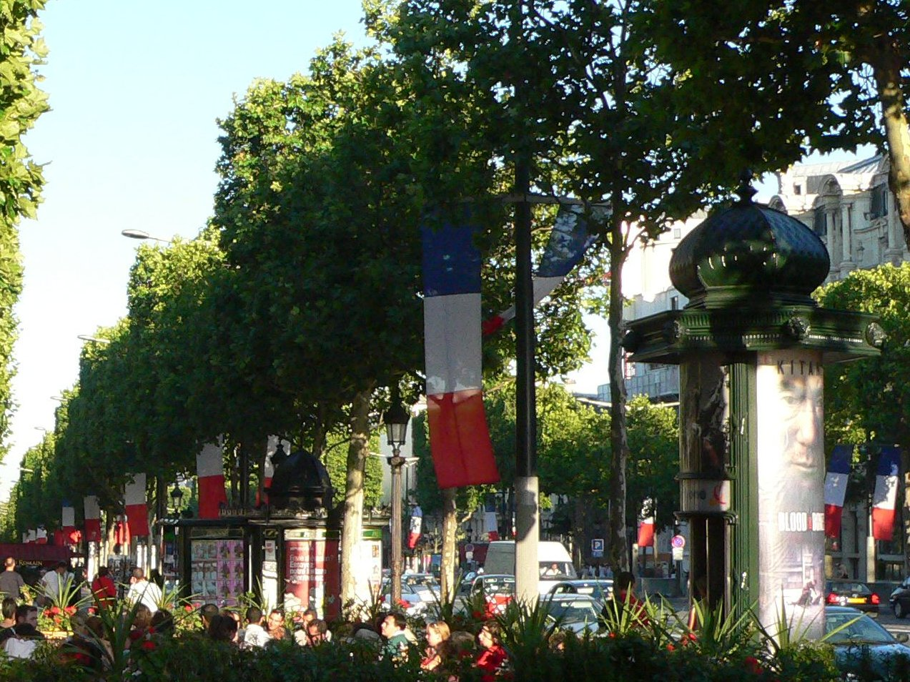 The Champs-Élysées decorated with flags for Bastille Day